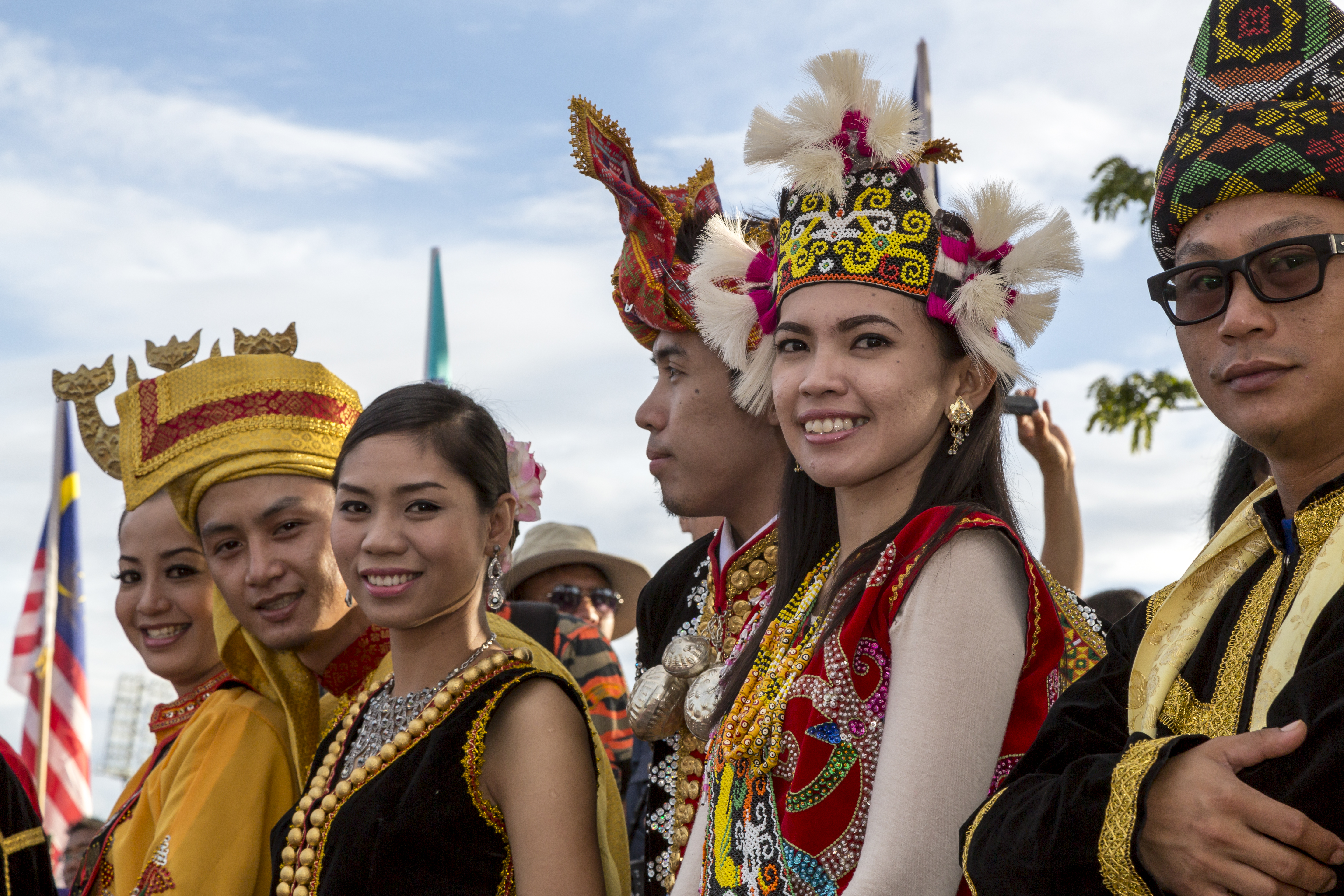 Kota Kinabalu, Sabah, Malaysia: Welcoming contingent of different tribes at Hari Merdeka 2013 in Likas on August 31, 2013